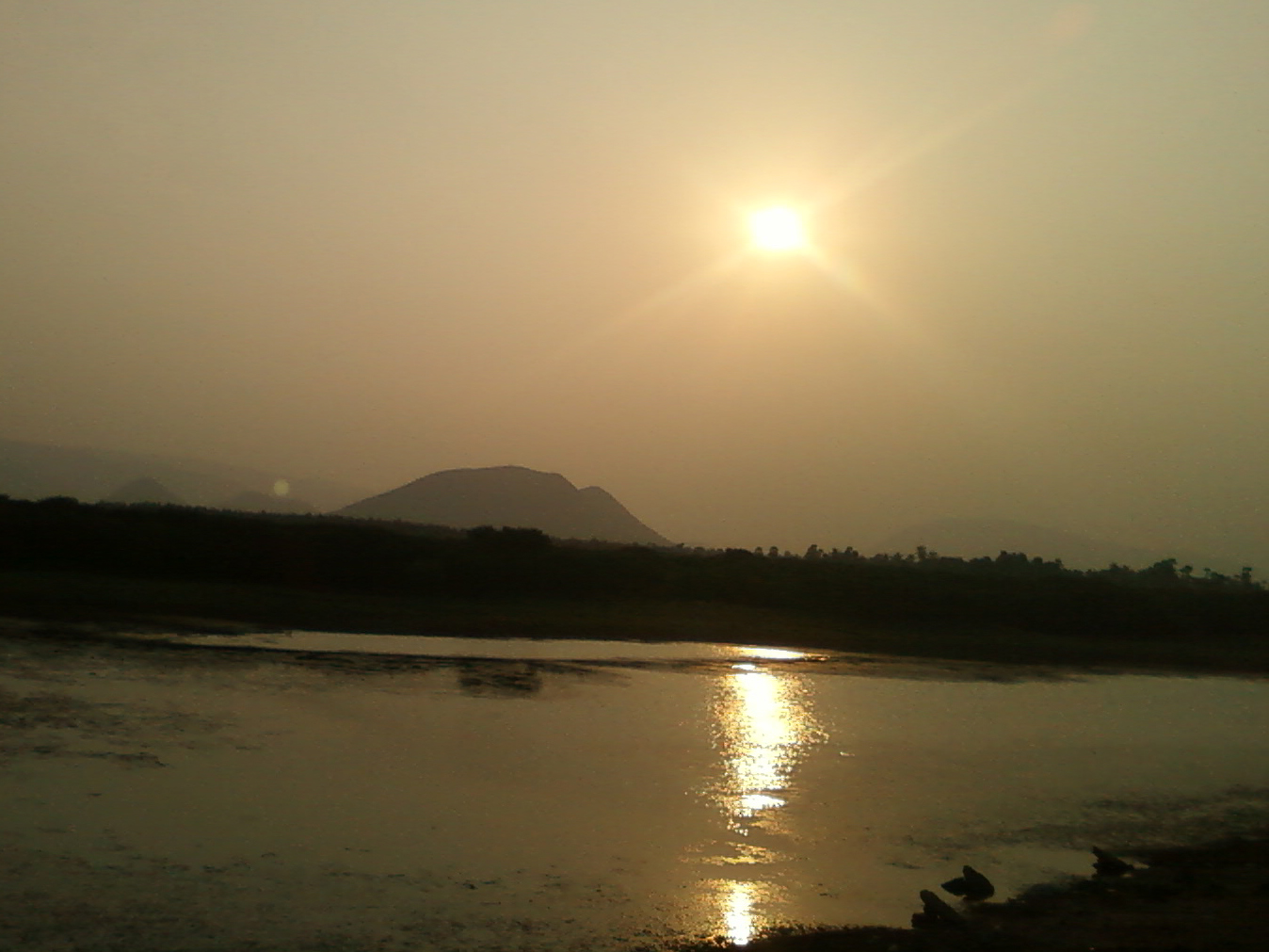 River Sarada in Visakhapatnam District during winter season